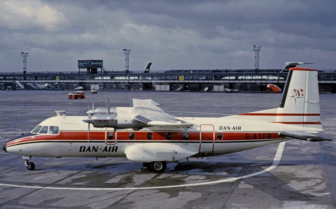 Nord 262A G-AYFR of Dan-Air at Manchester (Ringway) Airport in 1971